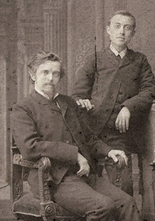 Petrus Johannes Arendzen, sitting, circa 1890s. Credit: Matthew Stancombe's archive.